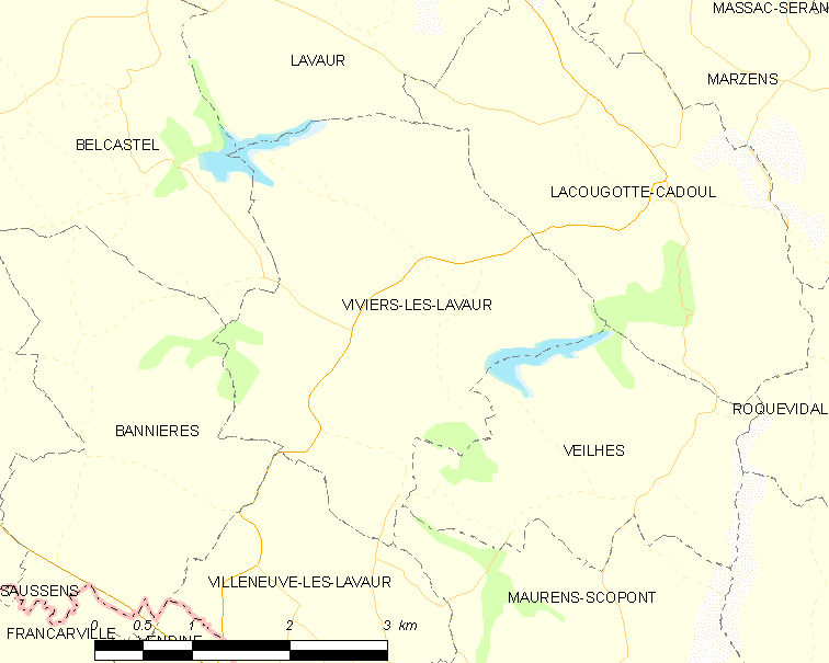 Map of French municipality Viviers-lès-Lavaur